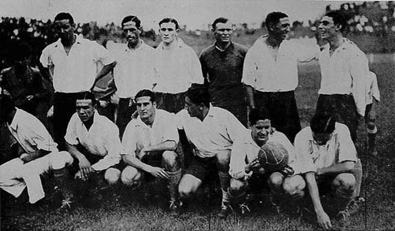 Argentine football team of Racing Club that won the "Copa Beccar Varela" in 1932.